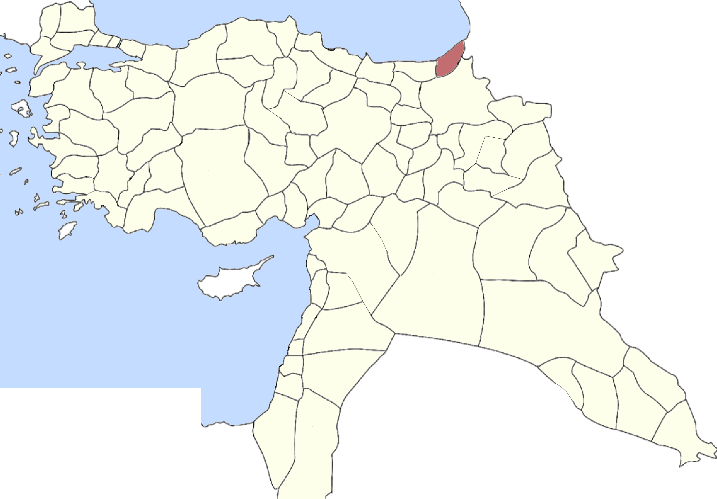 XY Sanjak, Ottoman Empire (1914). Source: Crime of Numbers: The Role of Statistics in the Armenian Question (1878-1918) at Google Books By Fuat Dündar